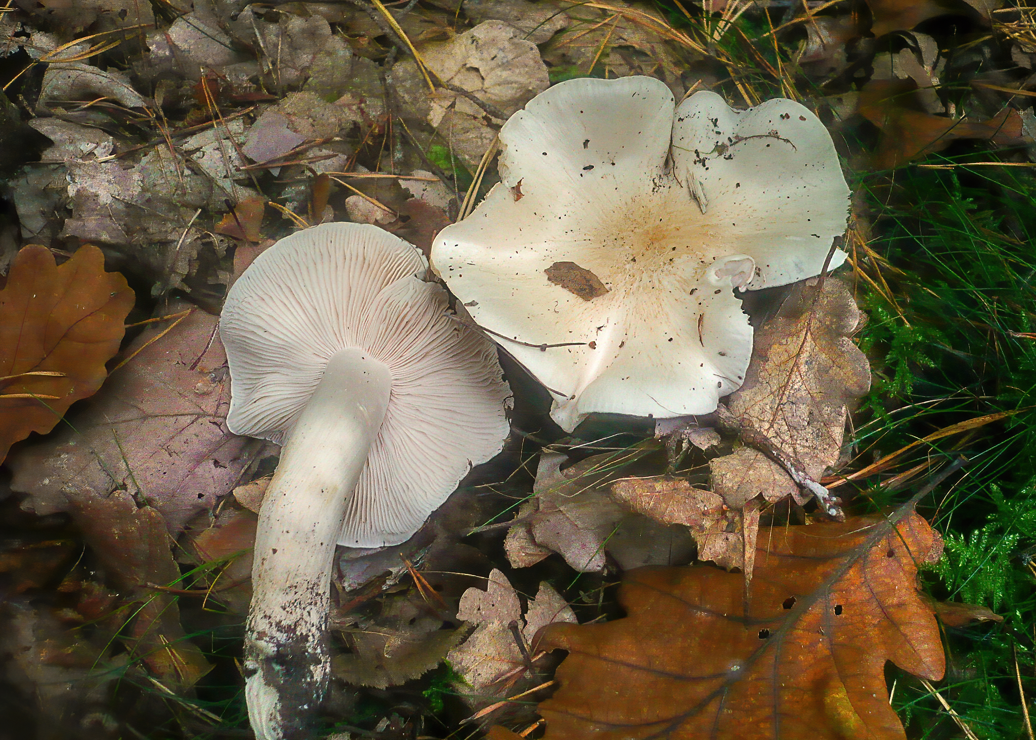 Tricholoma columbetta (Fr.) P. Kumm. Image location: Herrschaftlicher Wald, Unterfrauenhaid, Bezirk Oberpullendorf, Burgenland, Austria Recognized by sight: with the typical greenish-blue spots on cap and stipe For more information about this, see the observation page at Mushroom Observer.